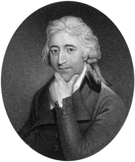 British botanist James Edward Smith (1759-1828)